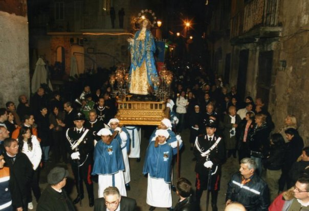 Procession of the 8th of december in Taranto